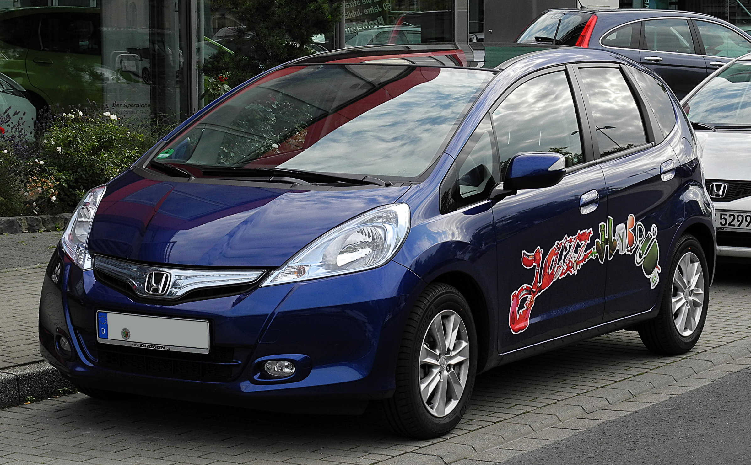 Honda Jazz Hybrid (III, Facelift)